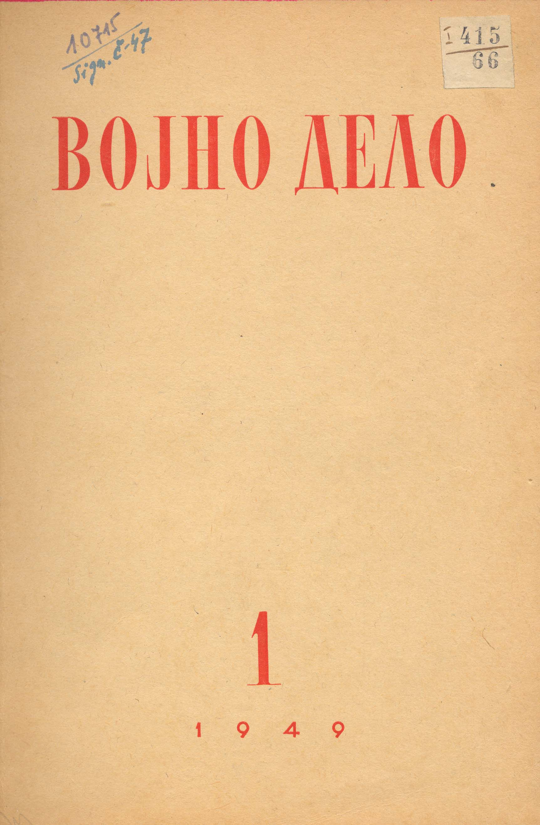 Cover of Journal Vojno delo, Media Center "Defense", Belgrade, Serbia, 1949, First number.